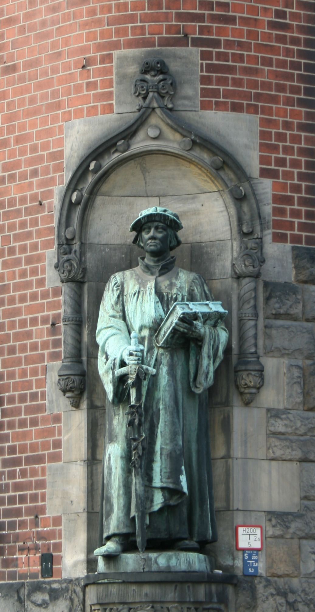 Statue of Huldrych Zwingli on the corner of the Zwinglikirche, Berlin, Germany, sculpted by Martin Goetze